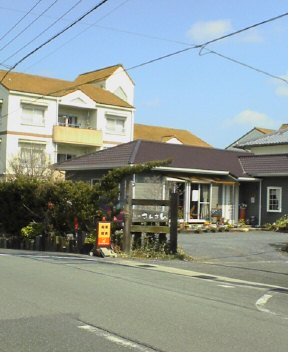 This is a photo of Yamada,Isobe Town,Shima City,Japan.